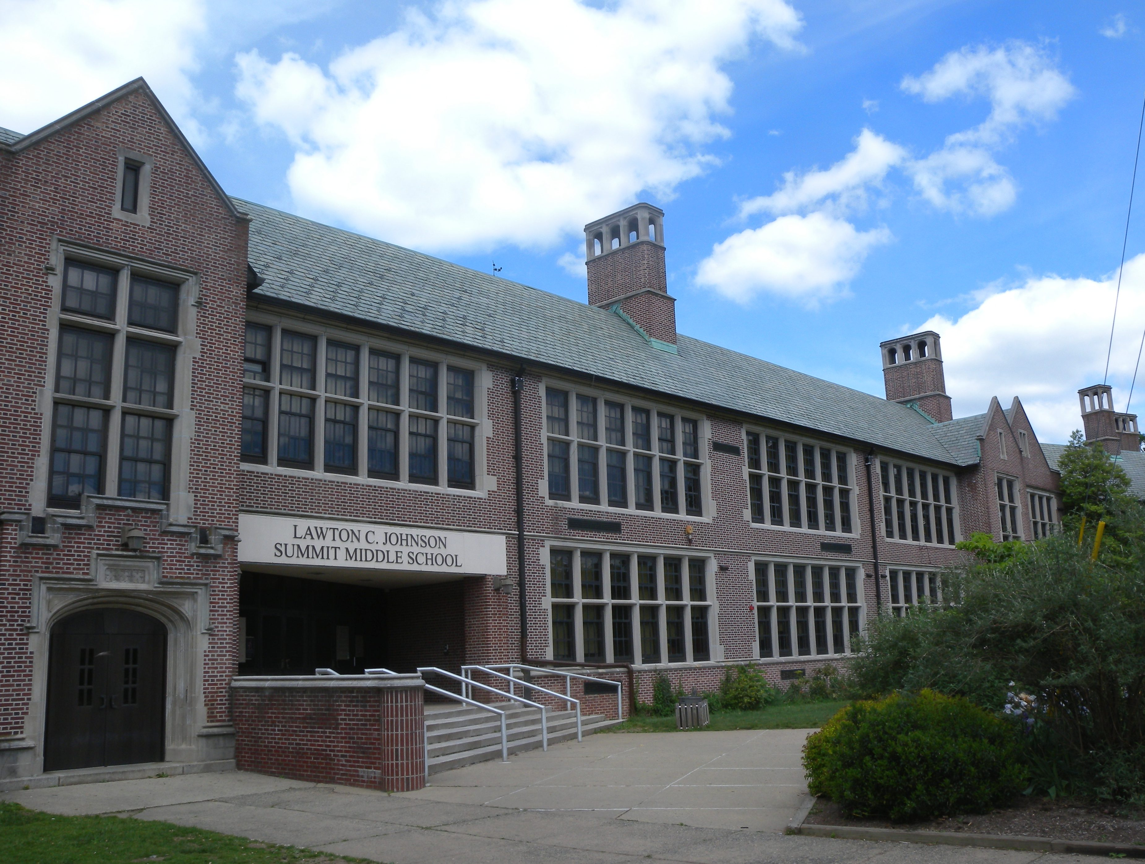 Looking north at Lawton Johnson Middle School on a mostly sunny midday. (Former Summit Senior High School.)